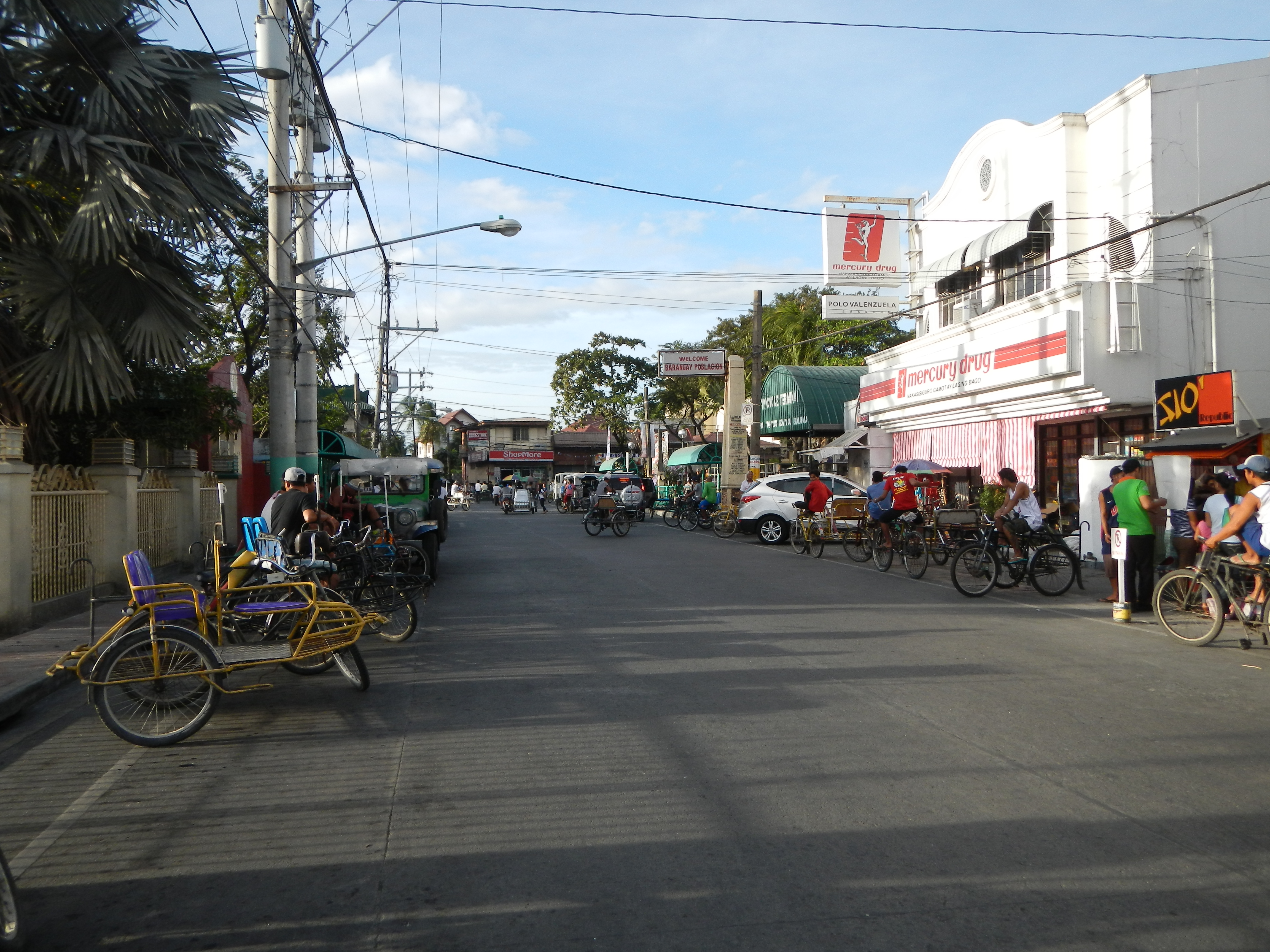 Upload Wizard photos of - Valenzuela, Philippines [1] Philippines - Barangay Poblacion and Polo, Valenzuela[2], the covered courts, school, memorial for fallen heroes, Polo National High School Polo Welcome arch.